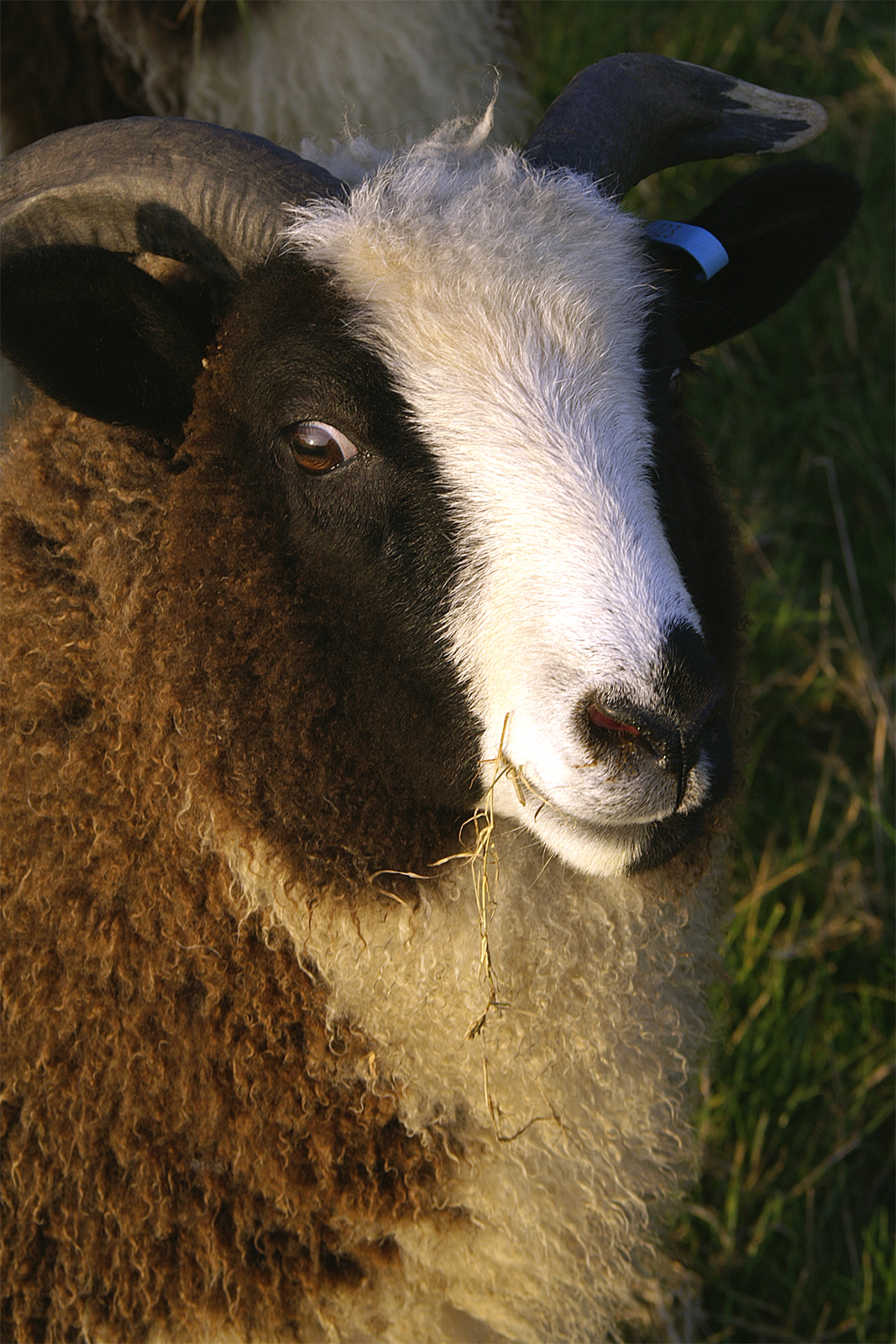 Portrait of a Jacob breed ewe